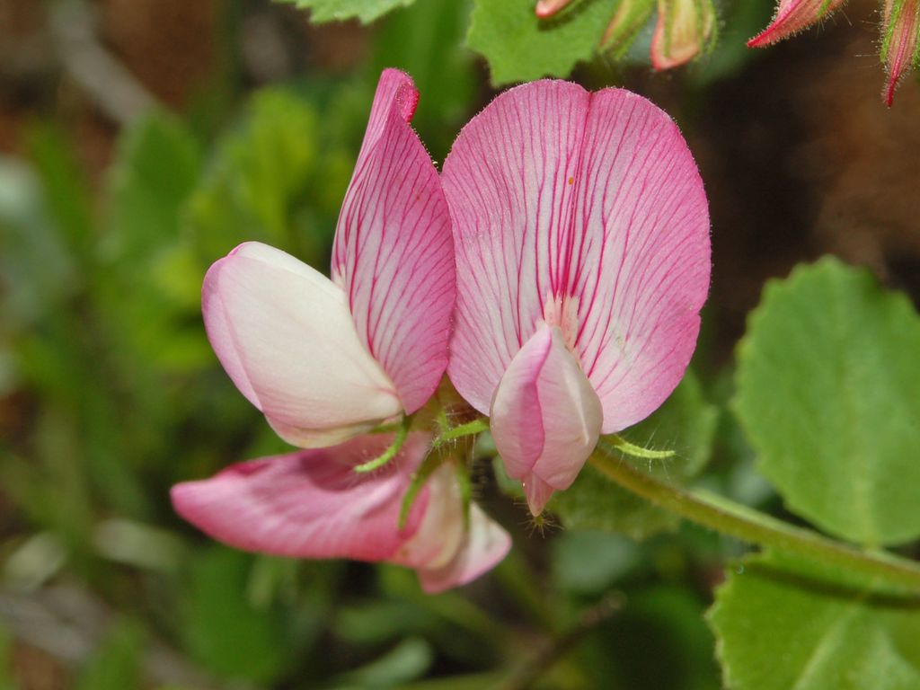 Ononis rotundifolia - Pragelato, Torino, Italy